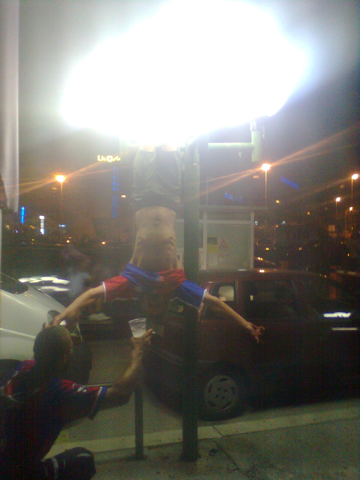 Celebration after Hajduk - Unirea soccer match